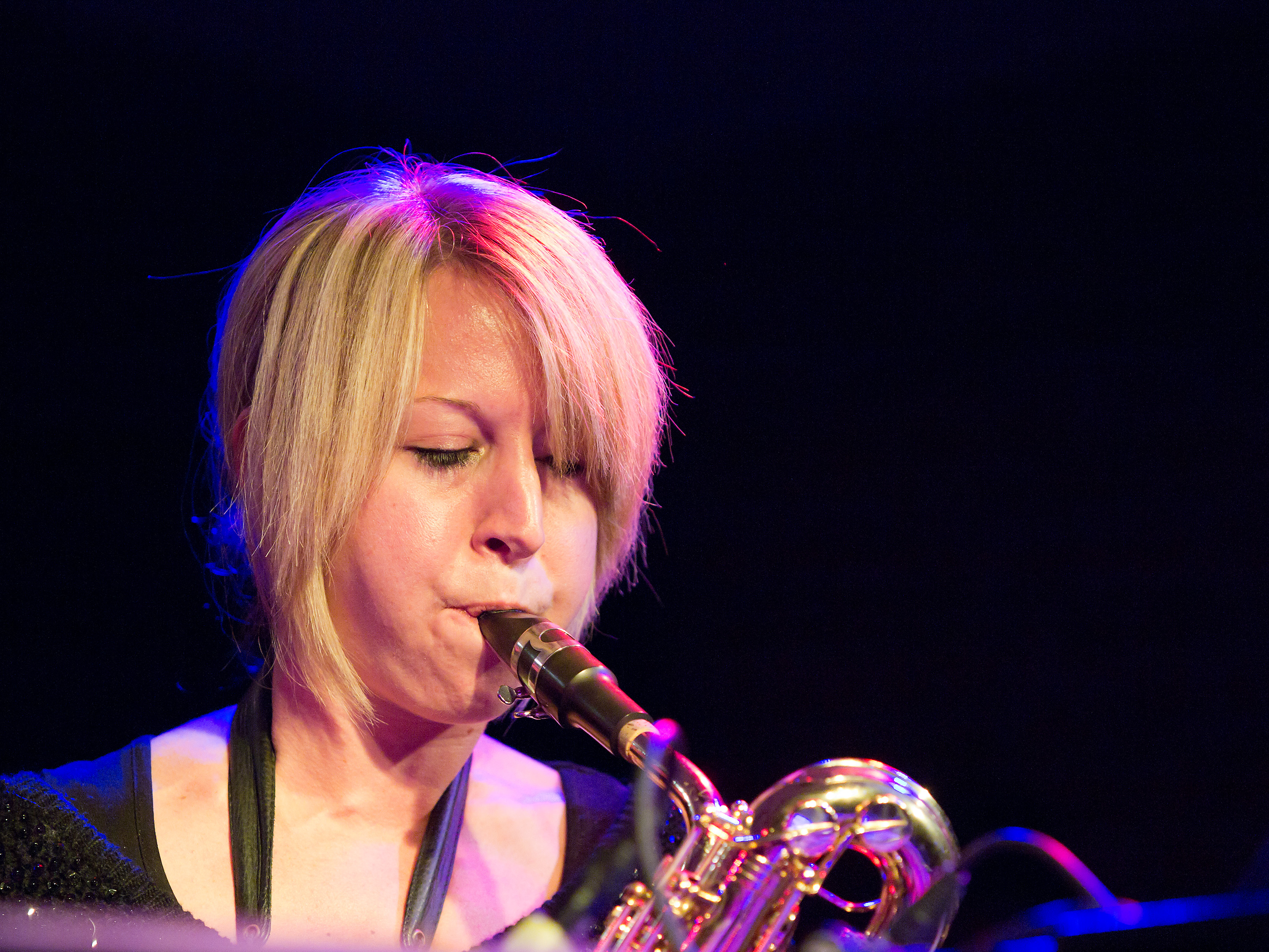 Stephanie Lottermoser, Jazz saxophonist; Picture taken in Jazz Club Unterfahrt, Munich/Bavaria